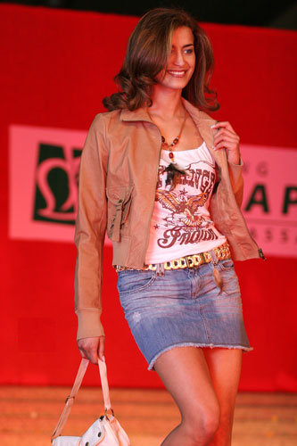 Spring 2005 Andreia Dinis at catwalk